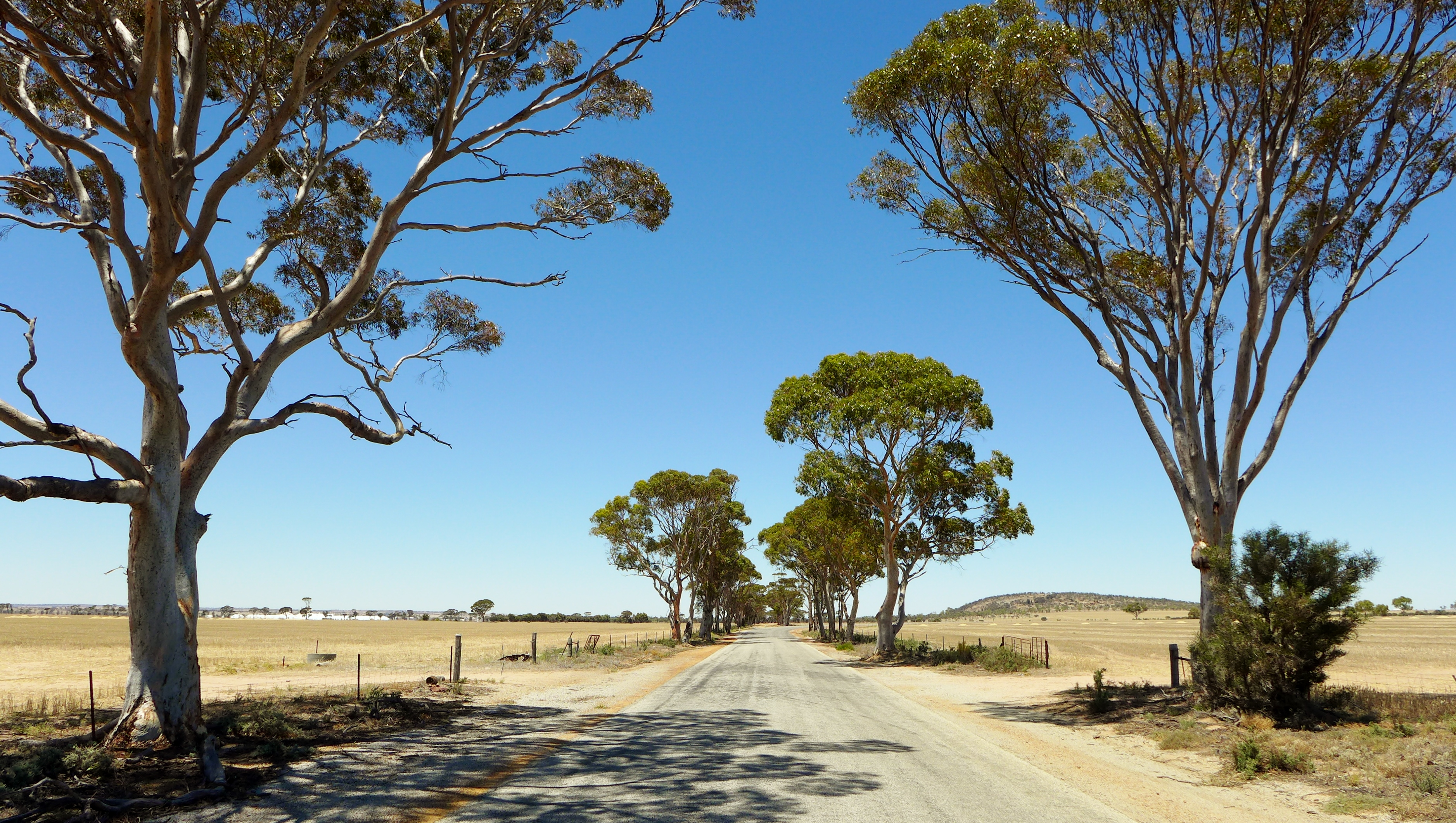 A view of the Bencubbin-Kellerberrin Road, Western Australia, just north of Kellerberrin, looking south.